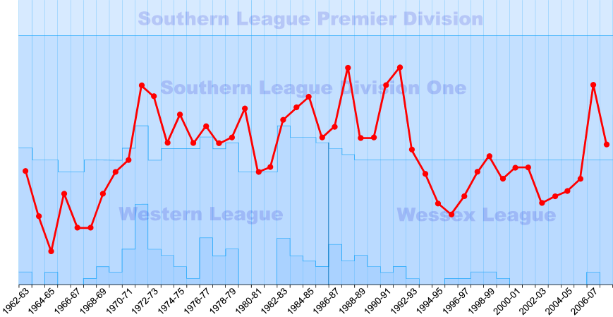 Graph showing the finishing league positions of Andover F.C. from 1962 to present, with different division shown in varying shades of blue for reference. Only four levels of the football pyramid are shown, with the Southern League Premier Division used at the top as a reference ceiling, and the Hampshire League shown at the bottom.